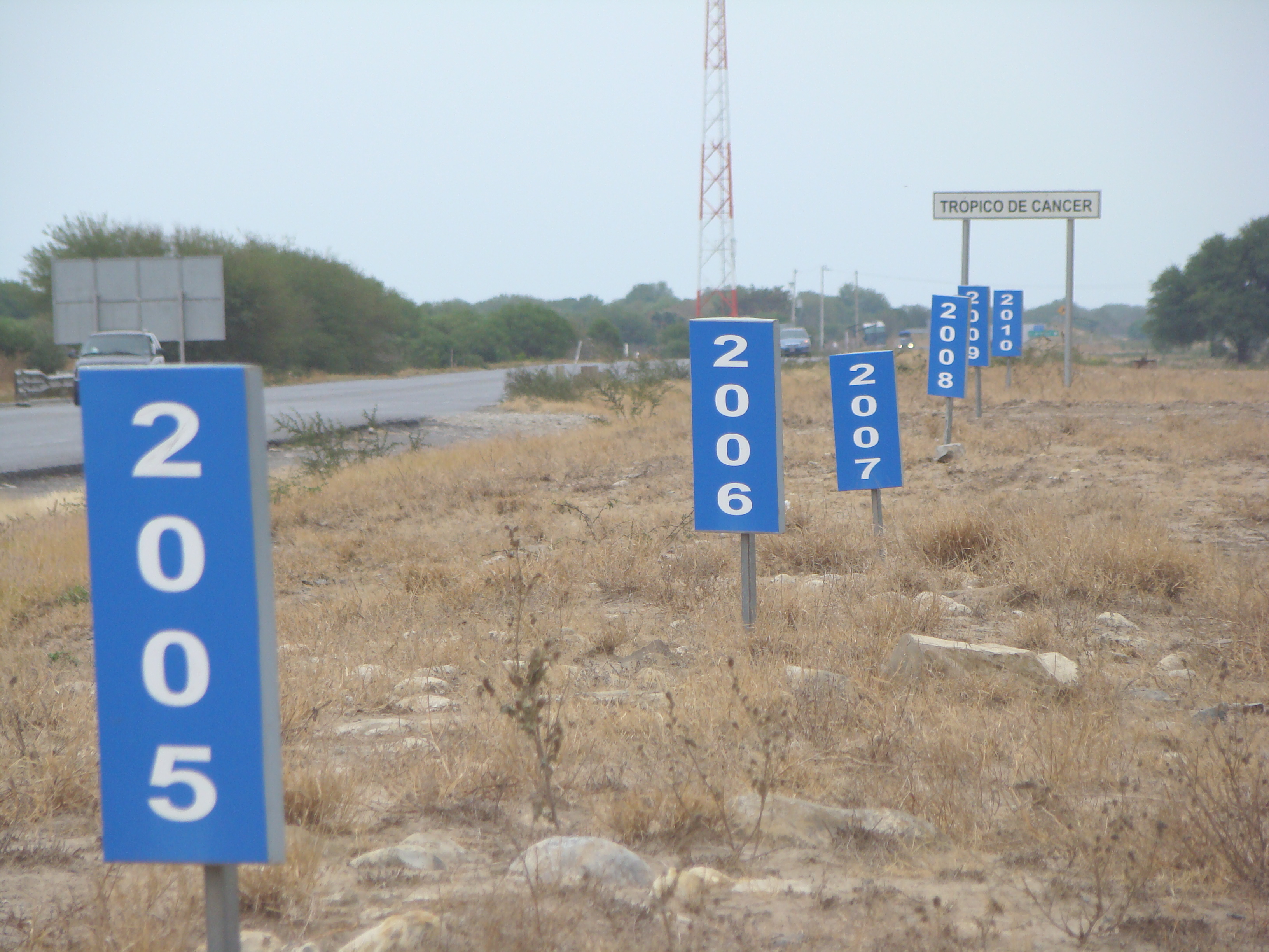 Of all crossings of the Tropic of Cancer with Mexican federal highways, this is the only place where the line is marked with precision and history of the annual movement since 2005. Publicada originalmente en Trópico en movimiento